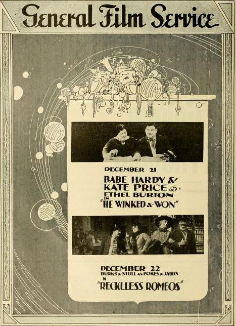 Advertisement in Moving Picture World